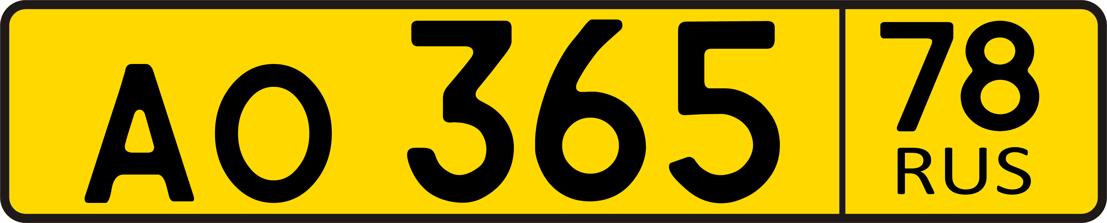 Russian license plate for taxi, buses and vehicles for passengers transportation.